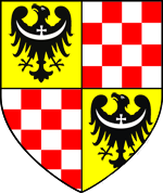 Coats of arms of Piast dukes of Glogow and Zagan from 1413